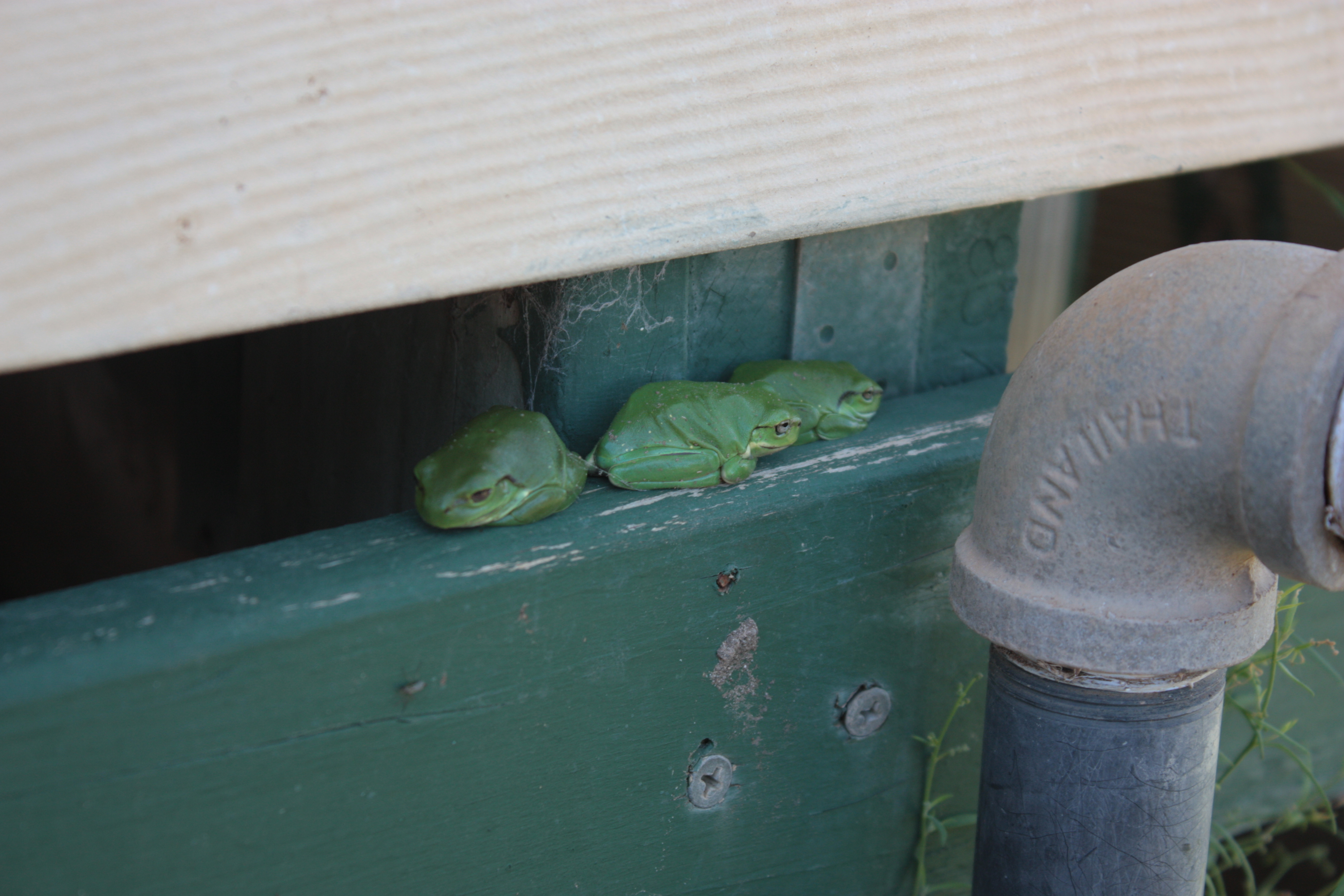 3 small young Australian green tree frogs hiding during the day beside and outside tap, near Mungindi, NSW.